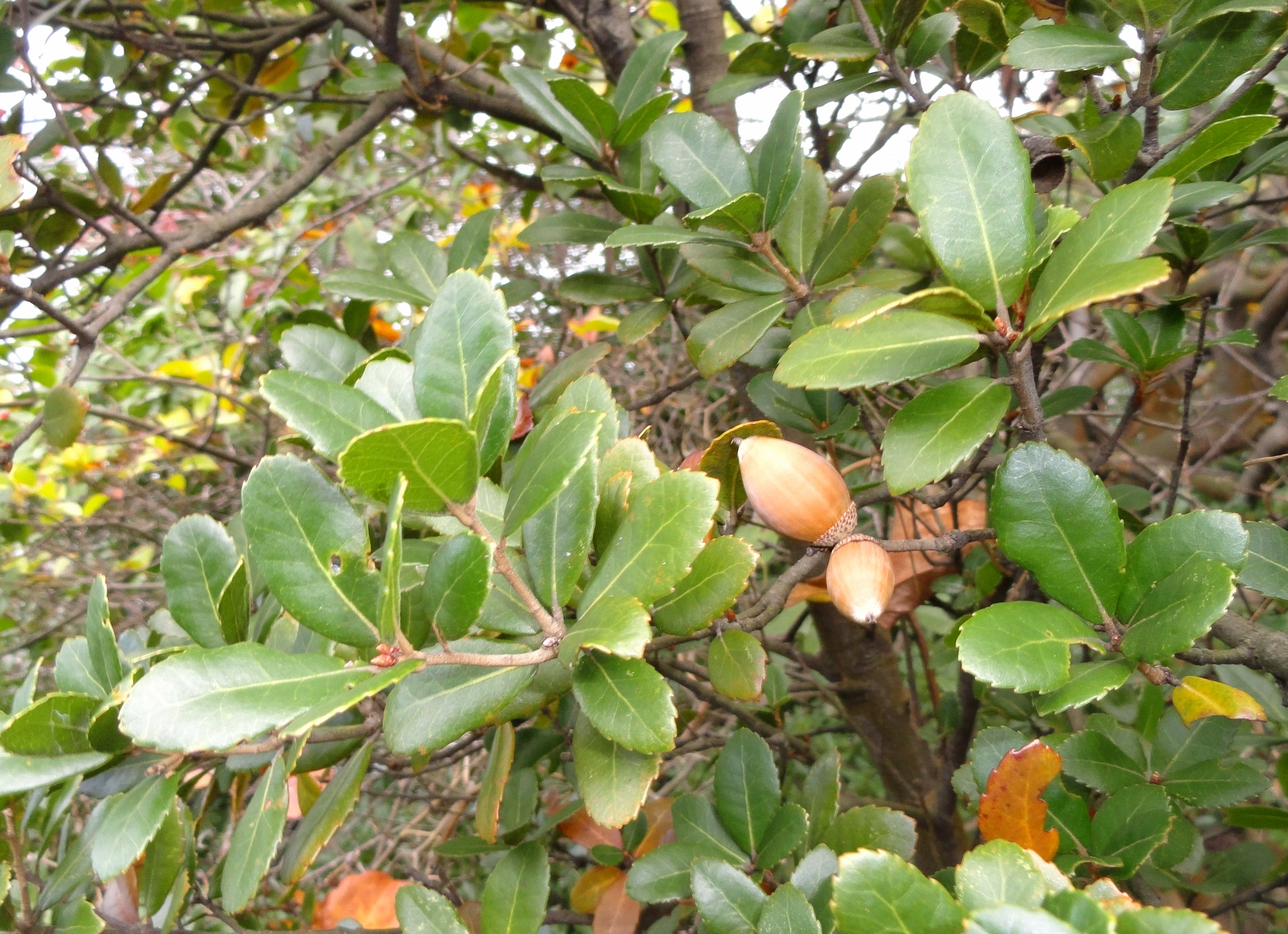 Botanical specimen in the Miyajima Natural Botanical Garden, Hatsukaichi, Hiroshima, Japan.